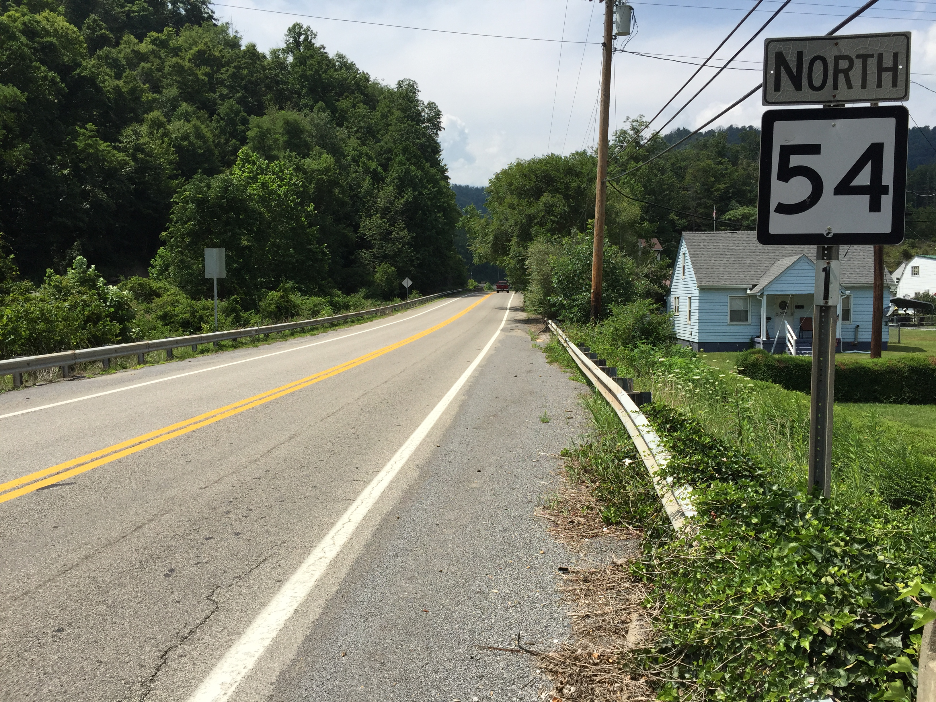 View north along West Virginia State Route 54 at Moran Avenue in Mullens, Wyoming County, West Virginia